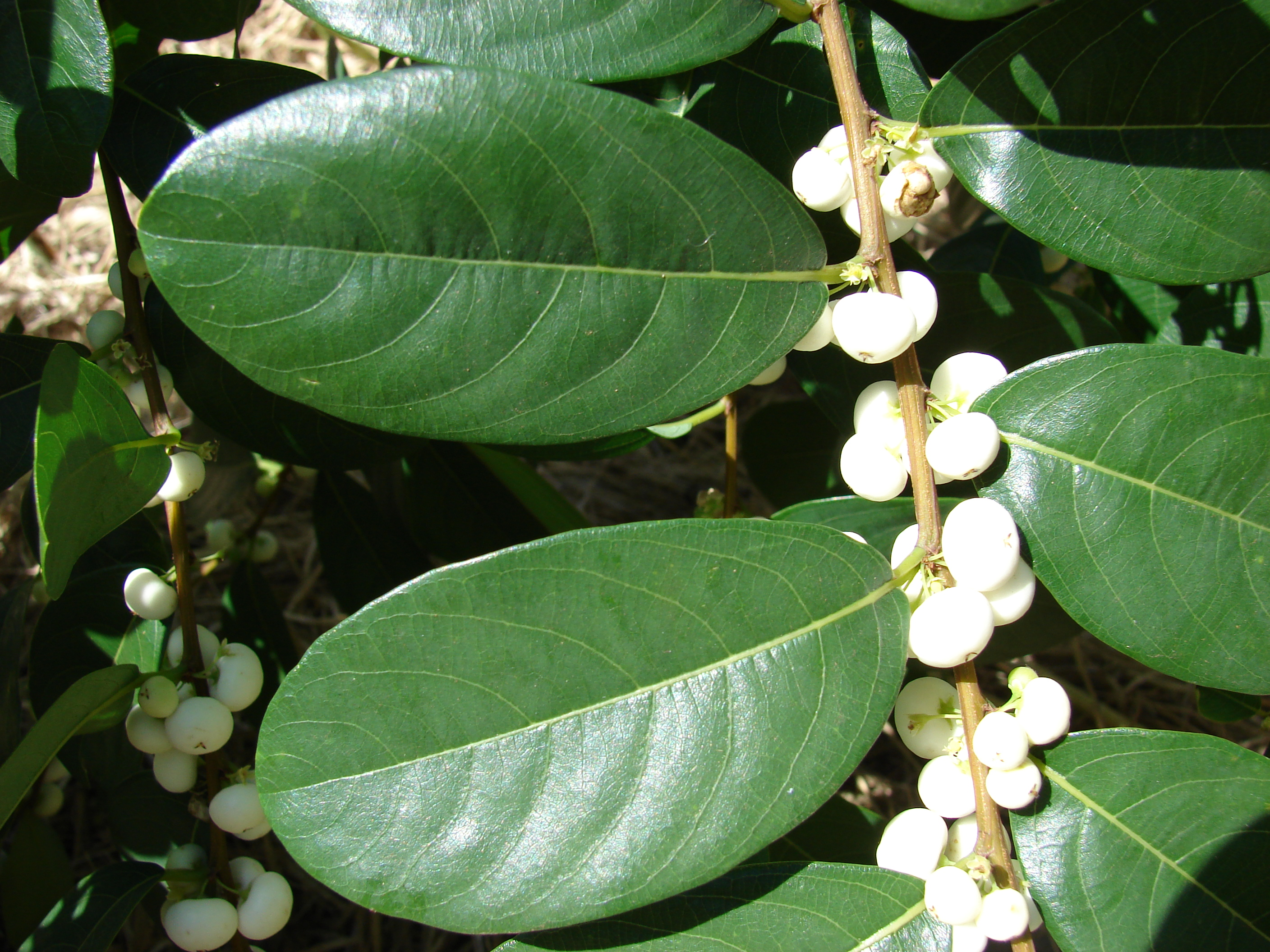 Flueggea virosa (leaves and fruit). Location: Maui, Haiku